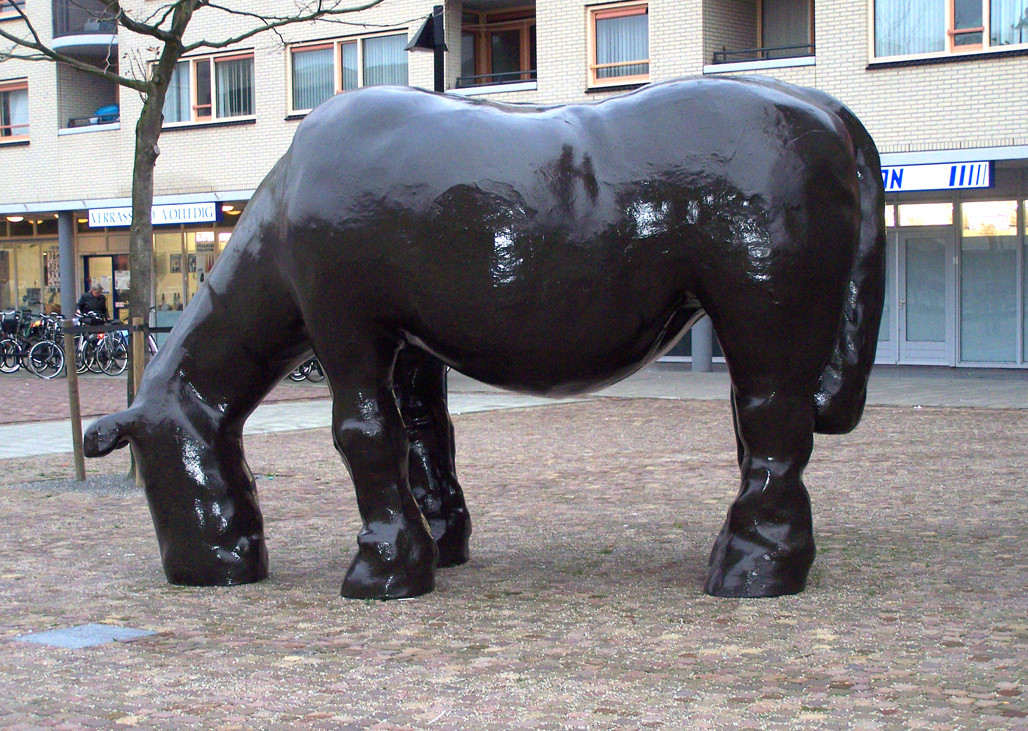 Sculpture Horse by Tom Claassen in 1996. It is located at the Plantage along the Amsterdamsestraatweg in Utrecht.